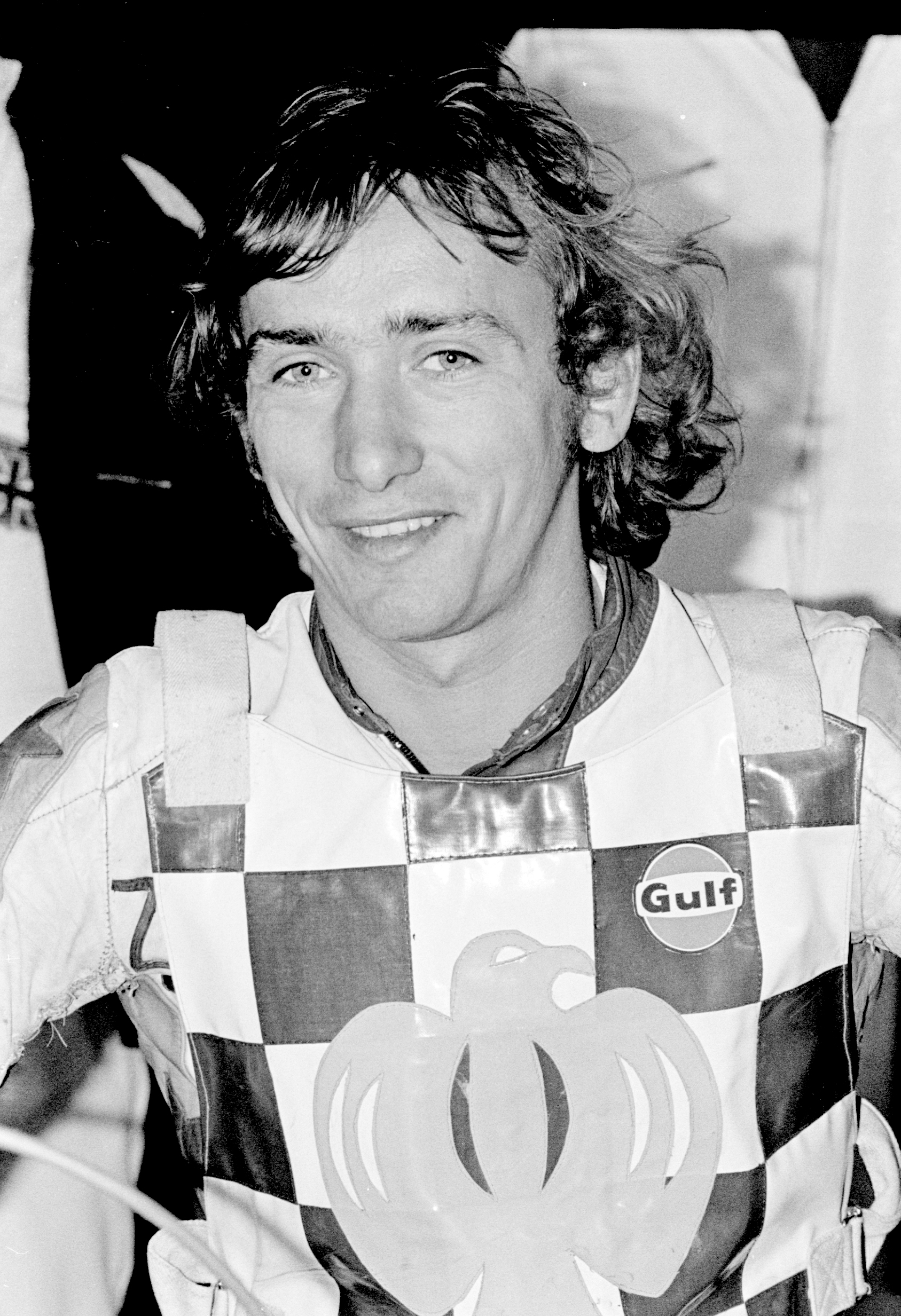 Zenon Plech, Polish speedway rider. Hackney Hawks 31st May 1976